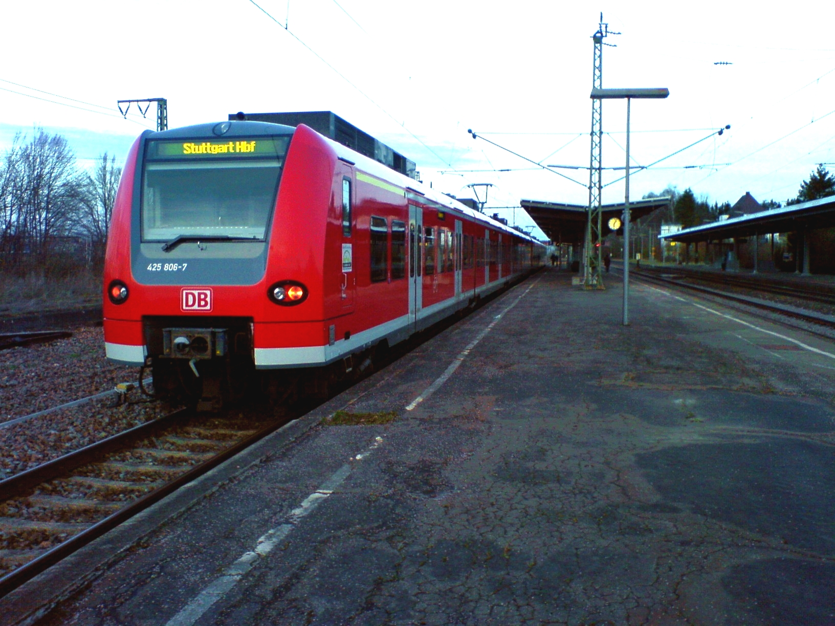 ET 425 on the Gäubahn in Eutingen (arriving from Freudenstadt and directed to Stuttgart)